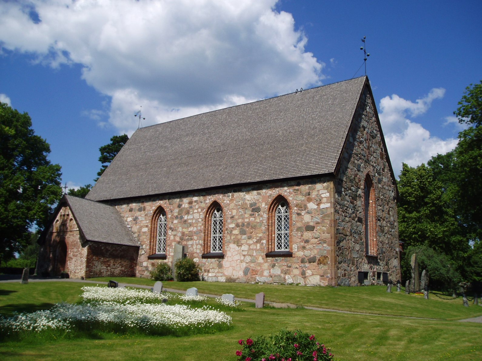 Håtuna kyrka, church in Uppland, Sweden